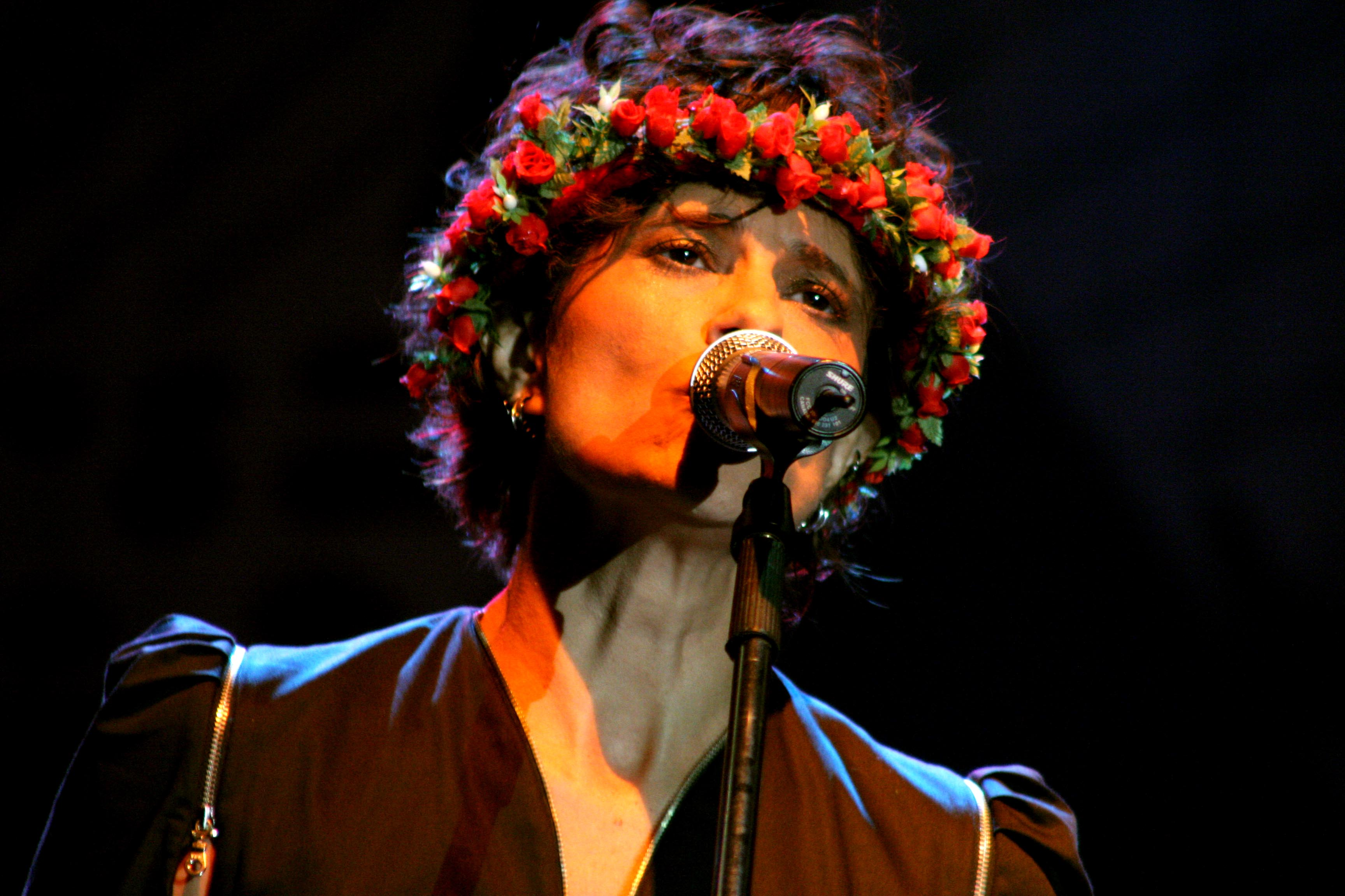 Zelia Duncan of Os Mutantes performing in São Paulo, Brazil, in 2007